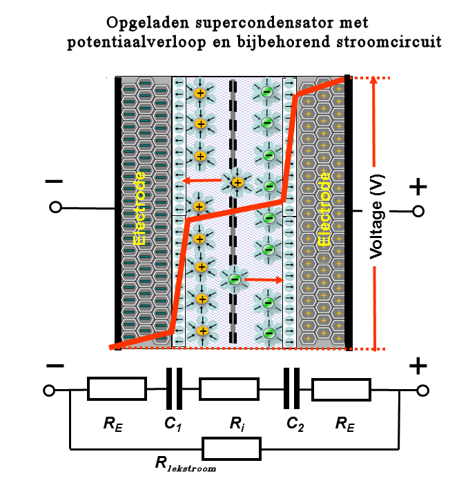 voltage distribution in a charged EDLC (now with Dutch txt)